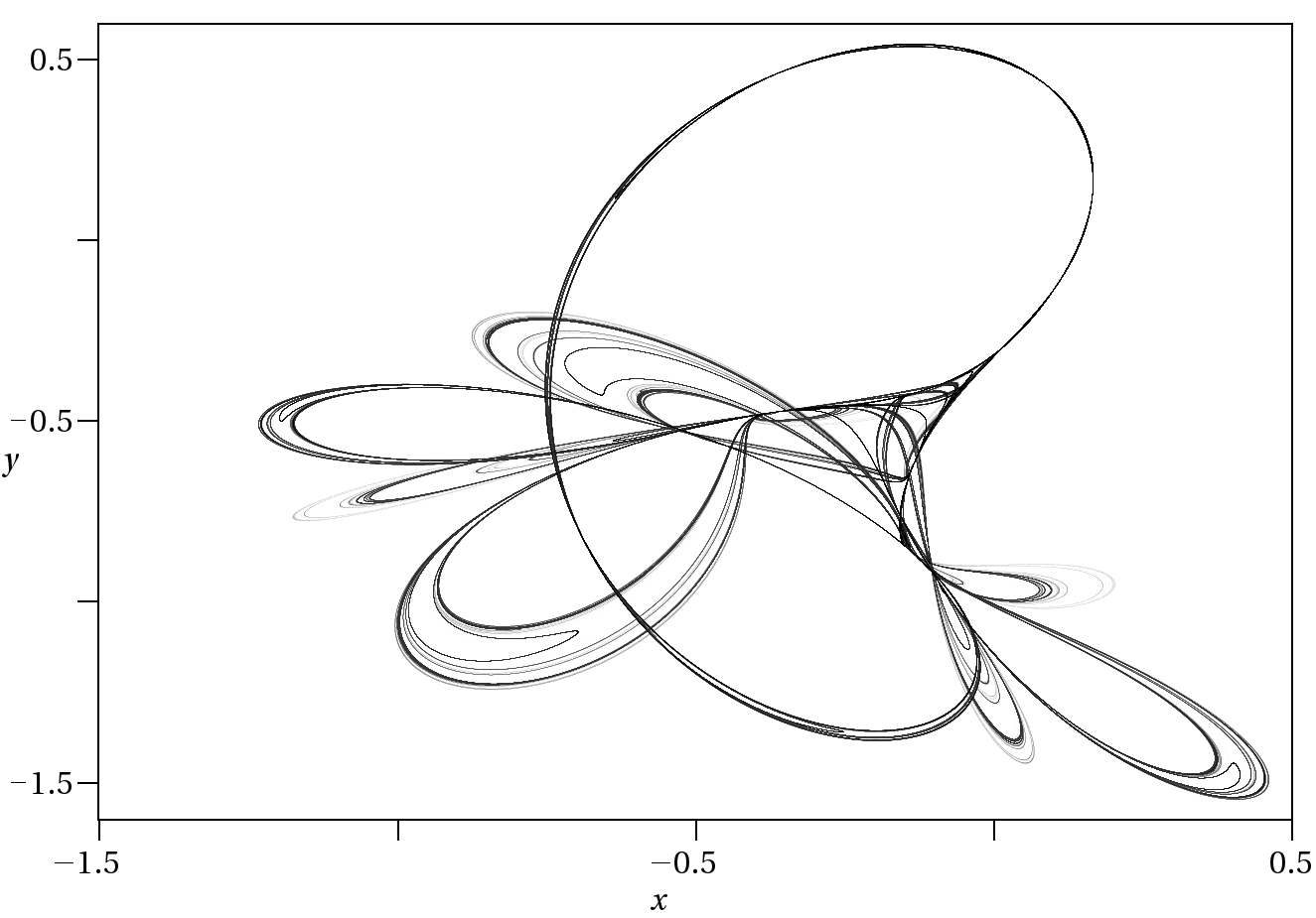 Tinkerbell chaotic map bifurcation diagram with a = 0.9, b = -0.6013, c = 2, d = 0.5